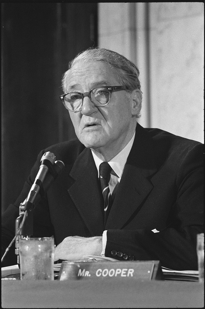 Senator John Sherman Cooper speaking at a U.S. Senate Foreign Relations Committee hearing on the Vietnam War